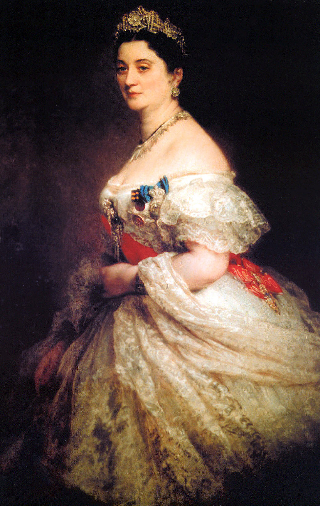 Princess Catherine Dadiani.